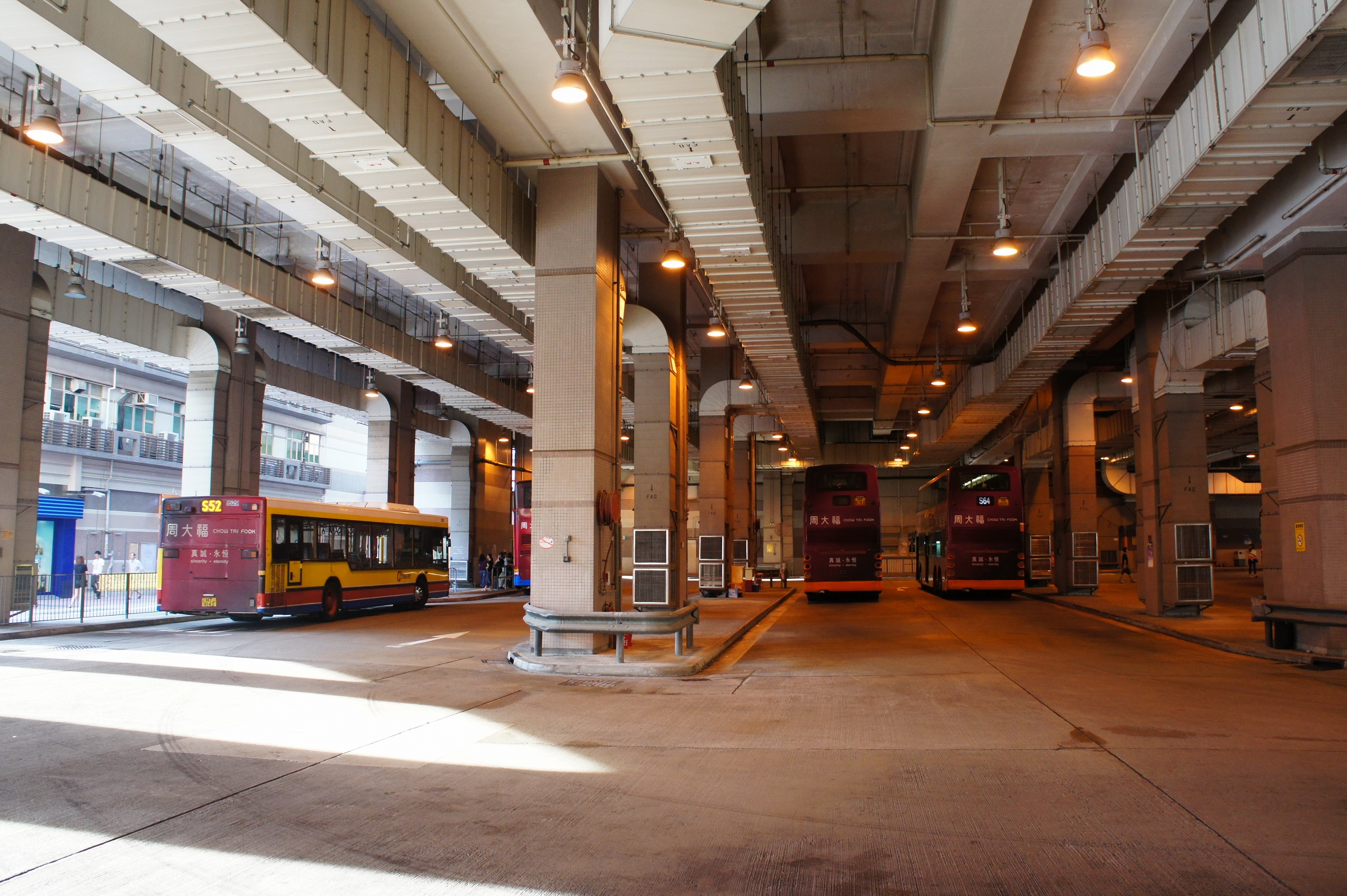 Yat Tung Estate Public Transport Terminus, Tung Chung, New Territories, Hong Kong.